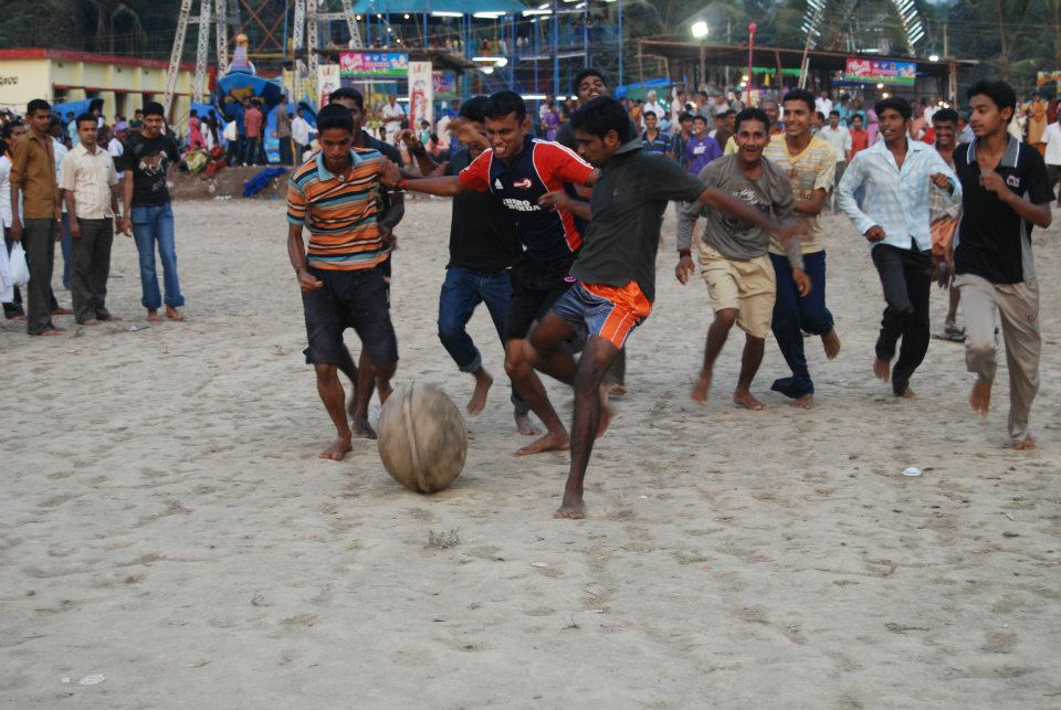 Polali Shri Rajarajeshwari temple chendu game